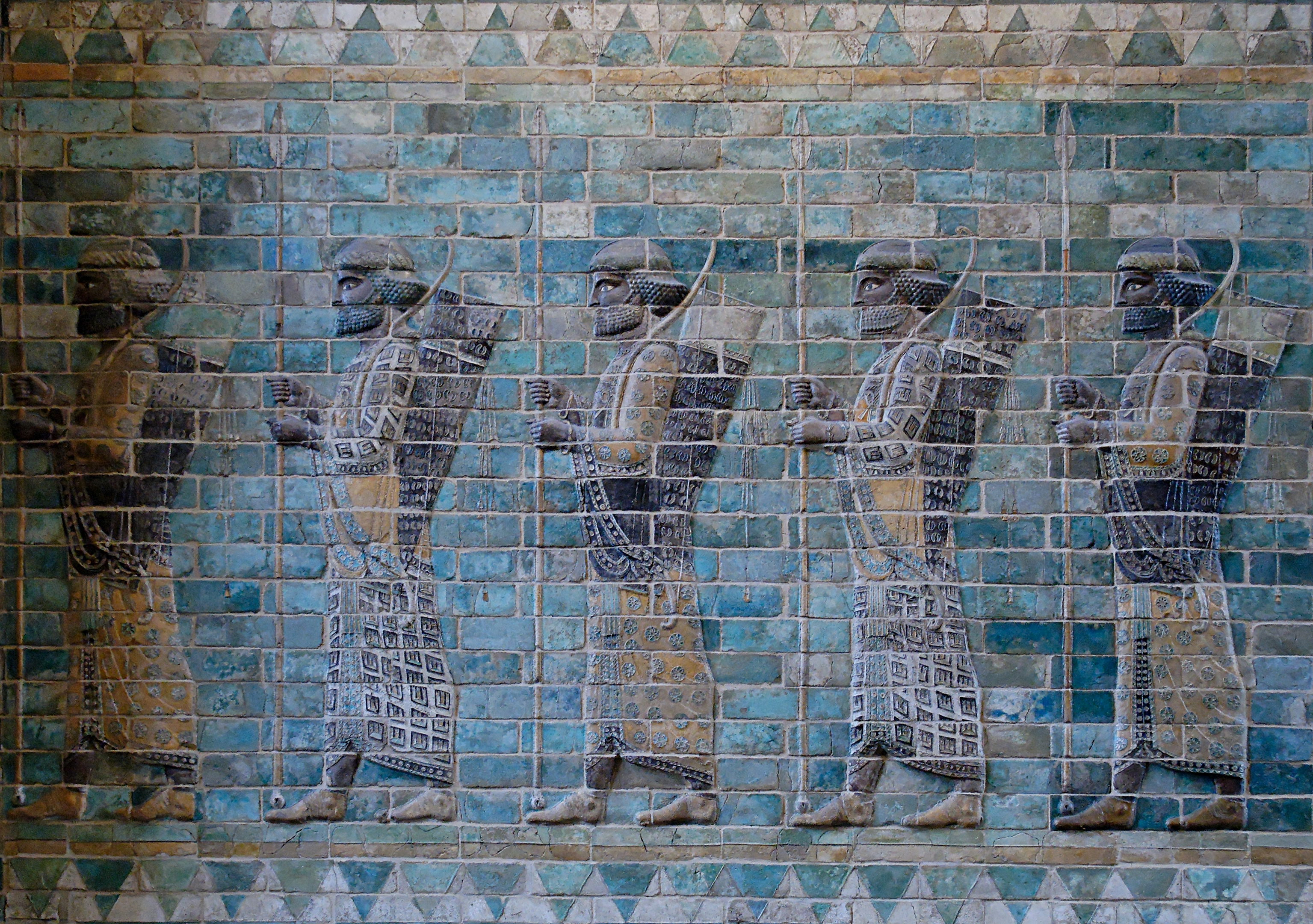 Archers frieze from Darius' palace at Susa. Glazed siliceous bricks, ca. 510 BC.